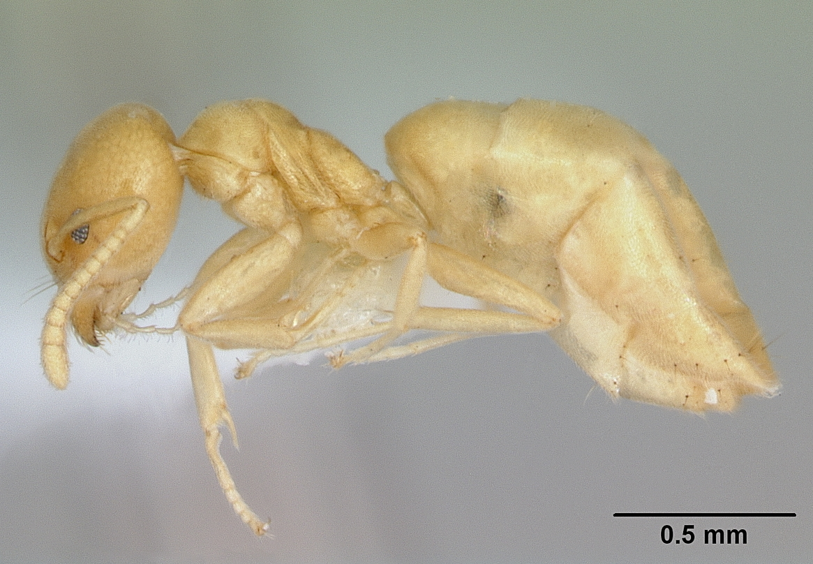 Profile view of ant Aptinoma mangabe specimen casent0106175.